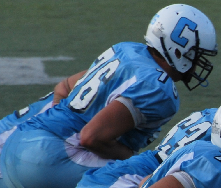 Opposing players line up on opposite sides of the line of scrimmage during a 2010 college football game between the Columbia Lions and Dartmouth Big Green.